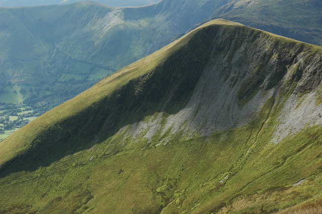 Gwaun y Llwyni Gwaun y Llwyni viewed from Drws Bach.